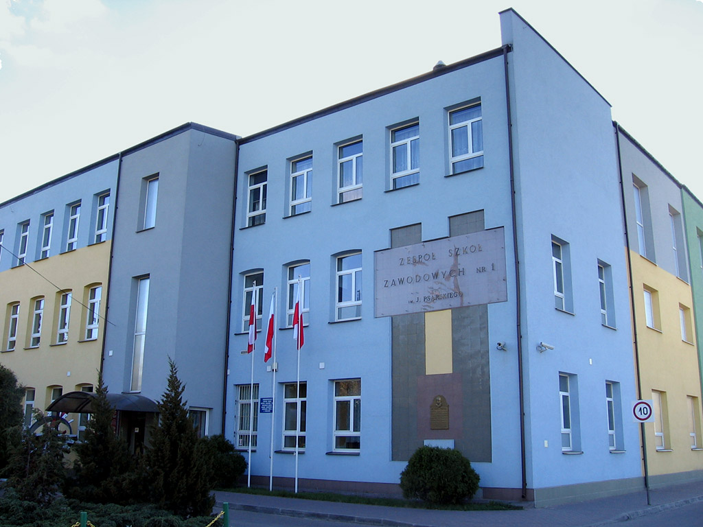 City of Ostroleka (Poland), building of ZSZ No. 1.